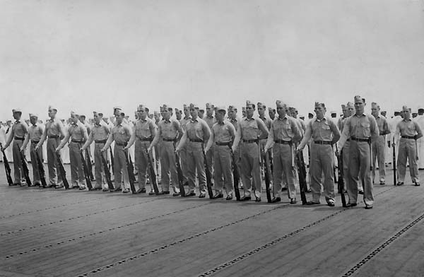 Enterprise CV-6's Marine Detachment relaxes formally following inspection by CAPT Matthias Gardner. The Marine Detachment, as was customary, was the first unit to be looked over by the Captain and his accompanying officers.